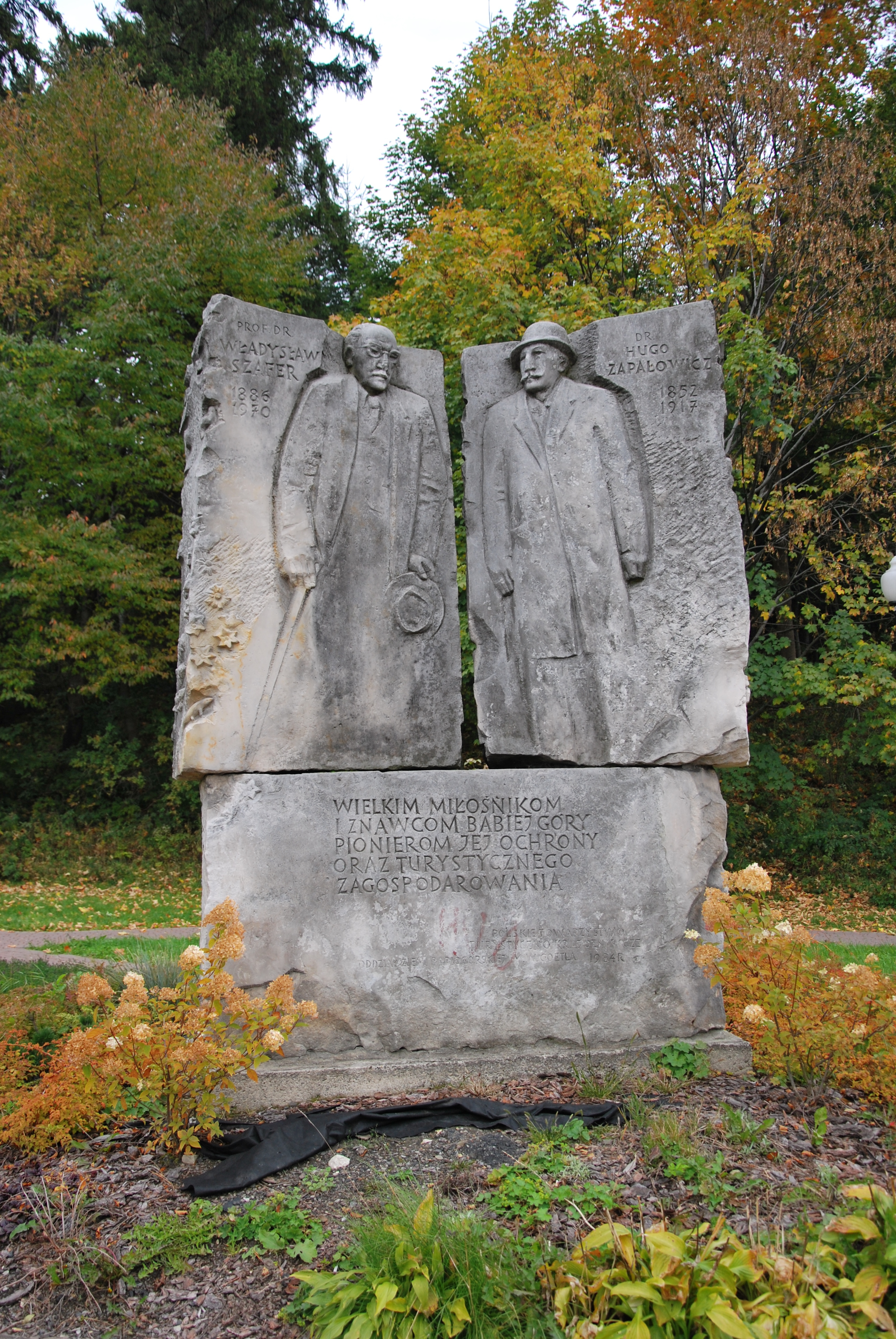 Władysław Szafer and Hugo Zapałowicz monument in Zawoja